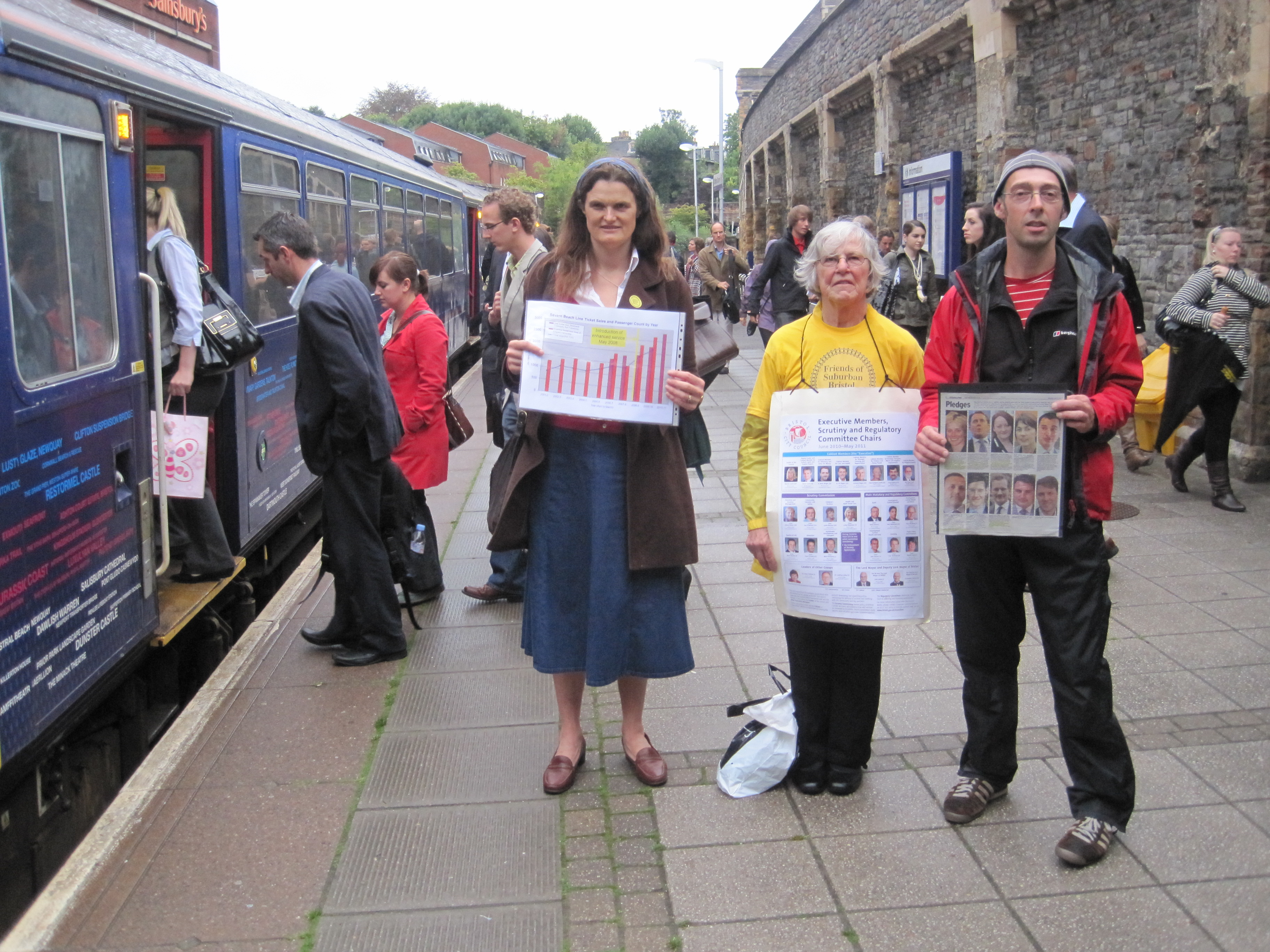 FOSBR members with charts and placards at Clifton Down railway station, lobbying the Council to fund an improved train service along the Severn Beach Line.